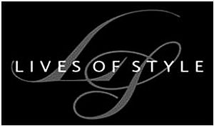 Lives of Style Logo